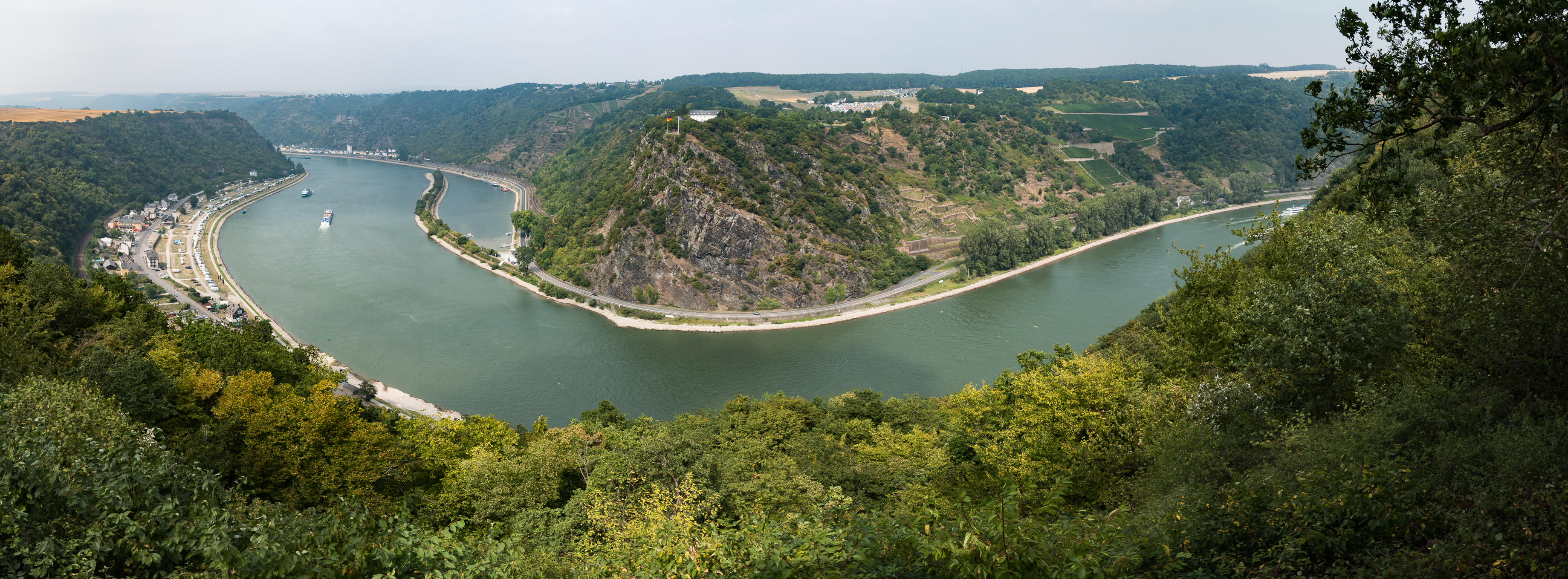 Der Loreley rock formation at the riverrhine